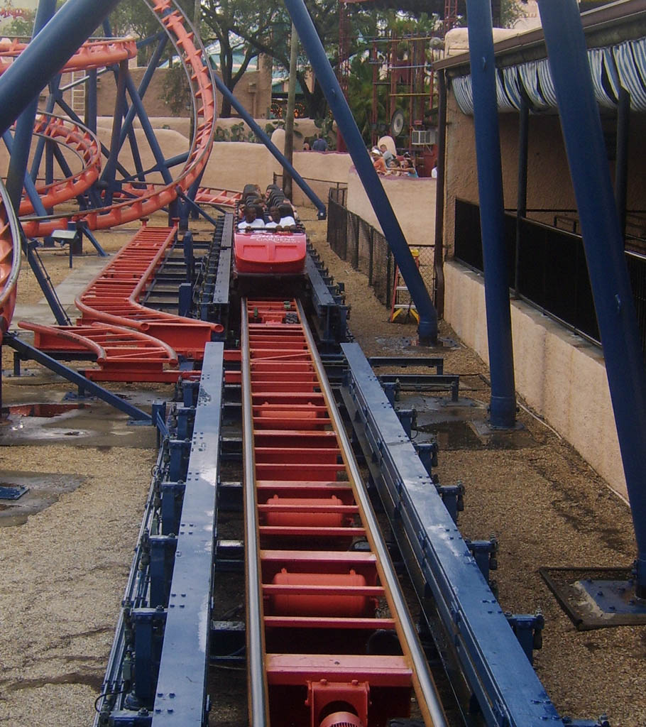 A brake run on Scorpion roller coaster at Busch Gardens Africa